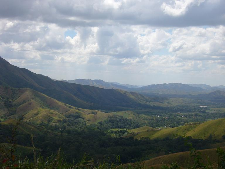 Landscape to the South of Valencia Lake, Venezuela